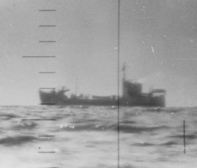 Japanese trawler photographed through USS Albacore's periscope.